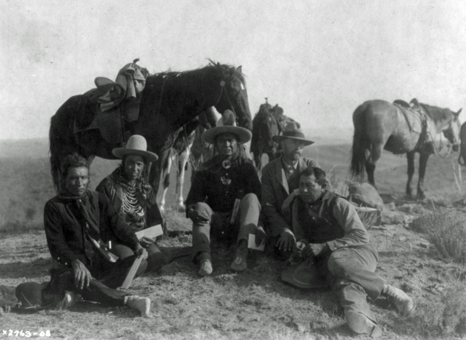 Photograph of Edward Curtis with three Indian Crow scouts and a Crow interpreter, visiting the Little Bighorn battlefield.